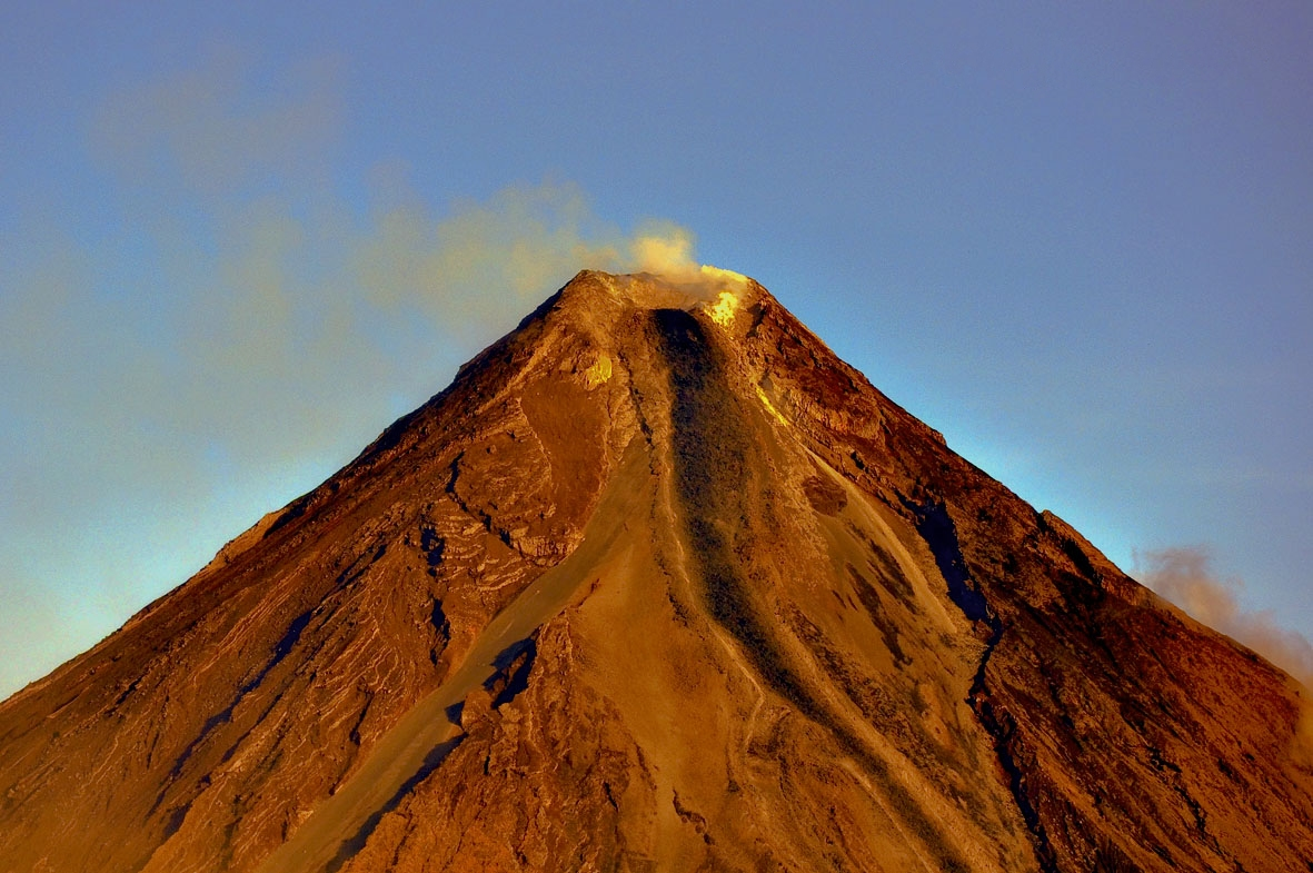 Mayon Volcano